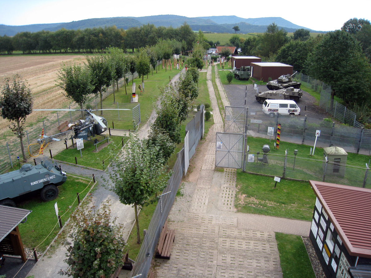 View of the Grenzmuseum Schifflersgrund (Landkreis Eichsfeld), Thuringia.